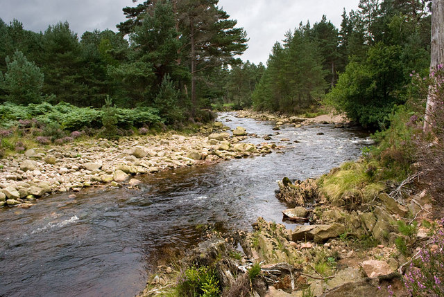 Water of Tanar The Water of Tanar flows through the forest which is one of the few surviving remnants of Scotland's native pinewoods.